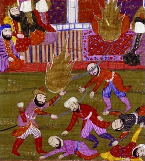 The execution of the Banu Qurayza. Detail from miniature painting The Prophet, Ali, and the Companions at the execution of the Prisoners of the Jewish Tribe of Beni Qurayzah, illustration of a 19th century text by Muhammad Rafi Bazil. Manuscript (17 folio 108b) now housed in the British Library. Taken from the cover of The Legacy of Jihad by Andrew Bostom.